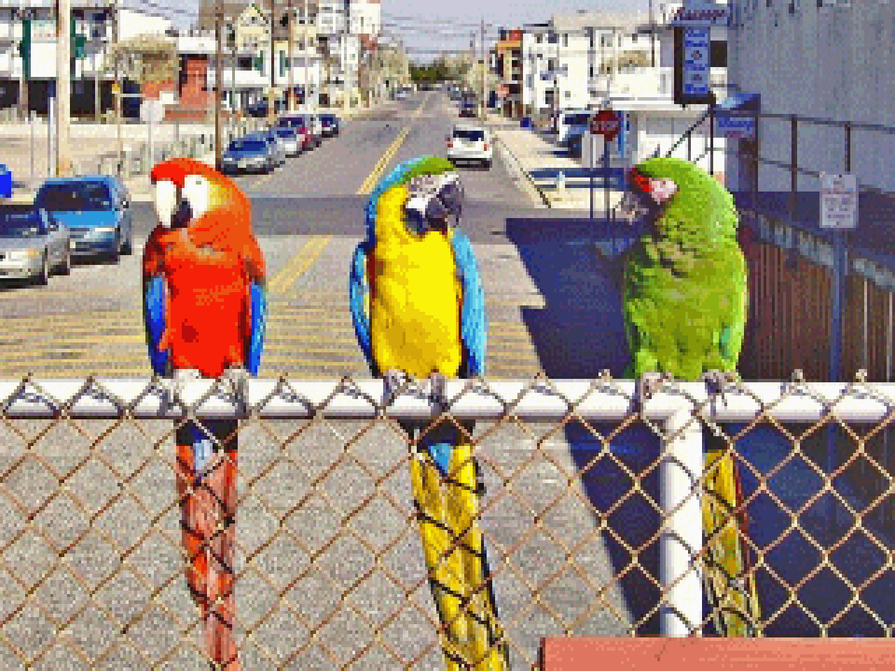 Simulated image as displayed using VGA 320x200 graphic resolution and color abilities, corrected for aspect ratio. The purpose is to compare with the same image as displayed on other early PC display adapters. A skilled artist would be able to get better results working around each adapter's limitations.